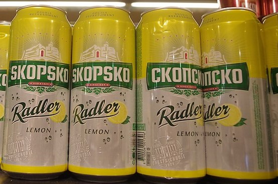 Skopsko Radler